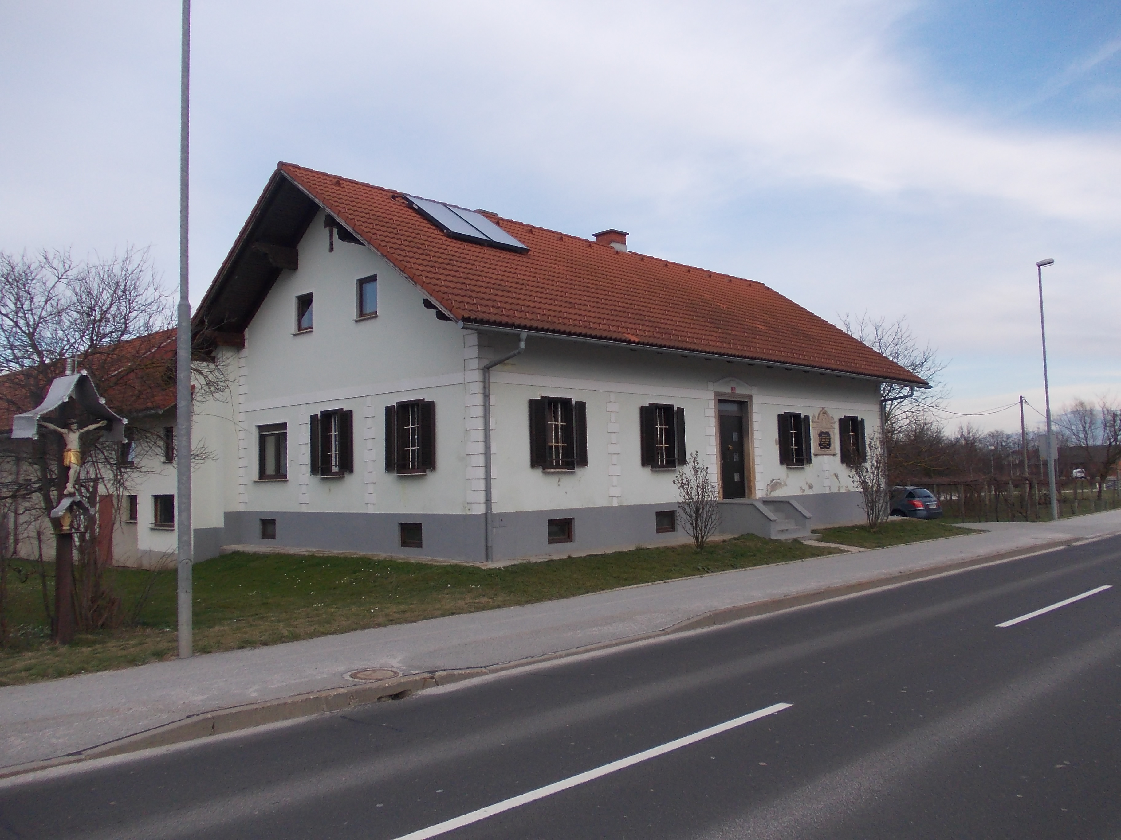 Jakob Missia's birth house in Hrastje - Mota